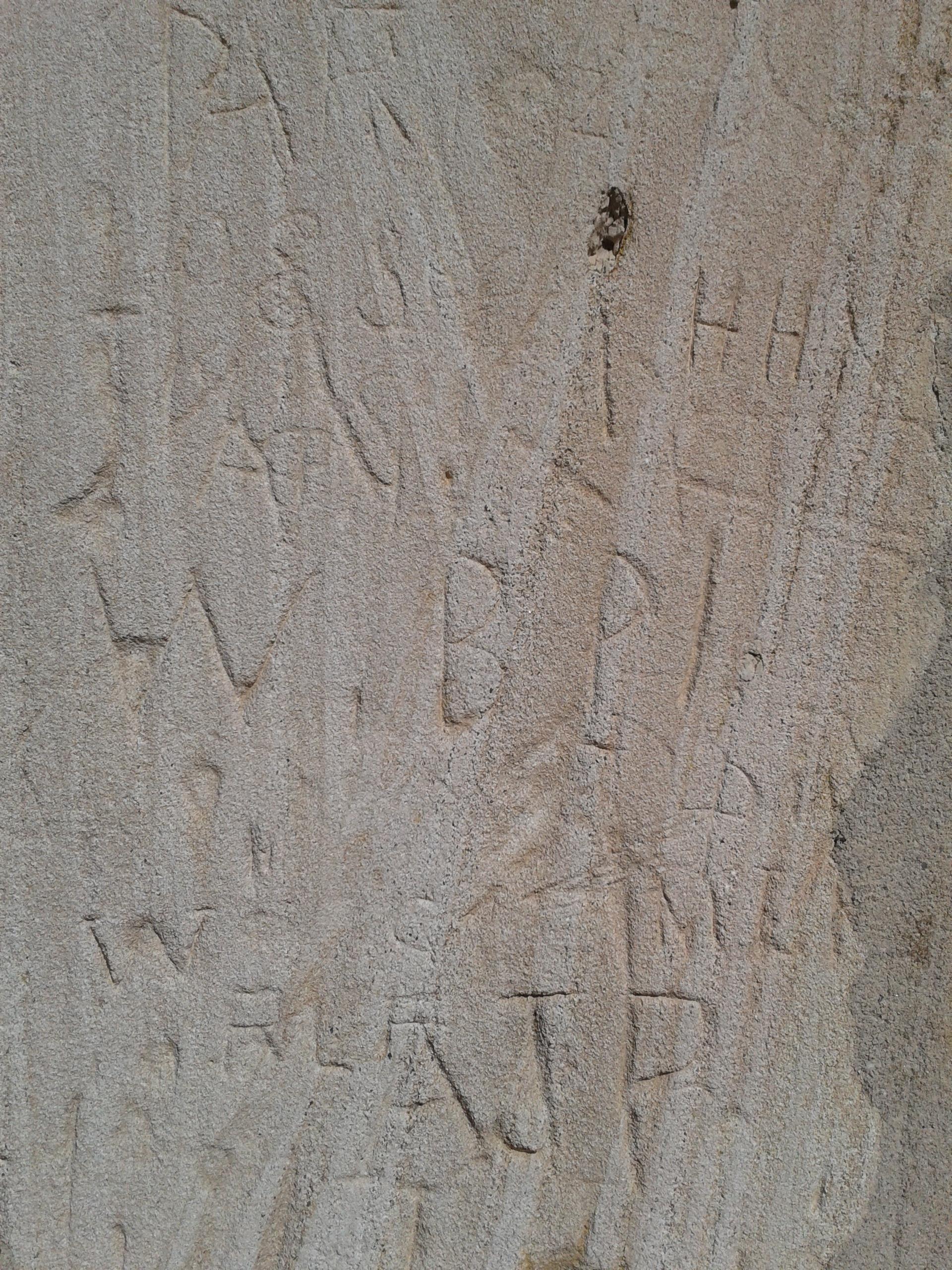 From a visit to Pohick Church in February 2016